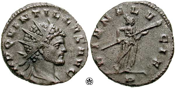 Quintillus AE Antoninianus. Mediolanum mint. :IMP QVINTILLVS AVG, radiate & draped bust right :DIANA LV-CIF, Diana standing right with long torch; P in ex. RIC 49, Cohen 19.